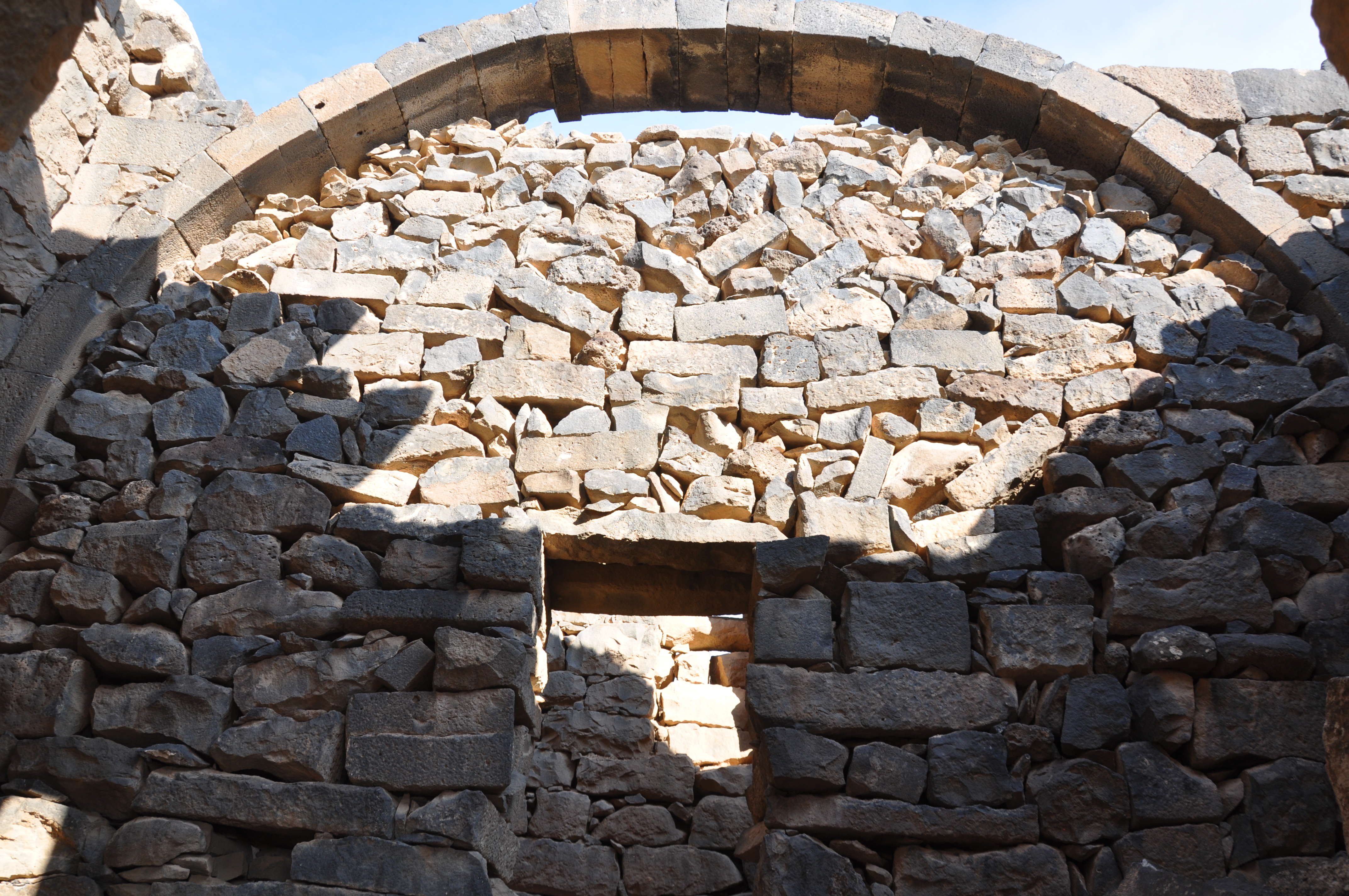 Possible Roman temple with midconstruction druze arch